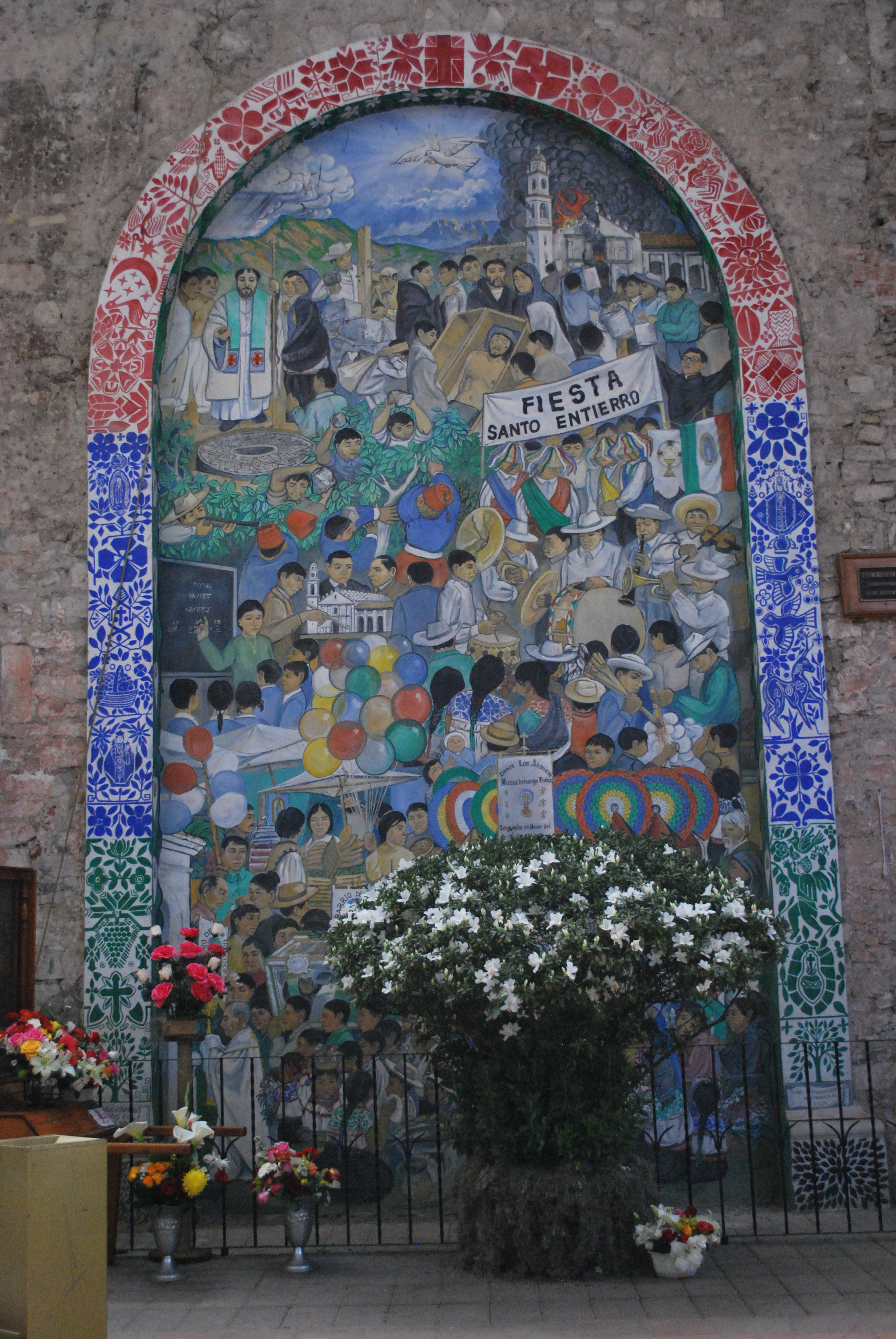 Mural of festival of the "Holy Burial" in the Santo Entierro Sanctuary in Huauchinango, Puebla, Mexico (by Raul Dominguez Lechuga)